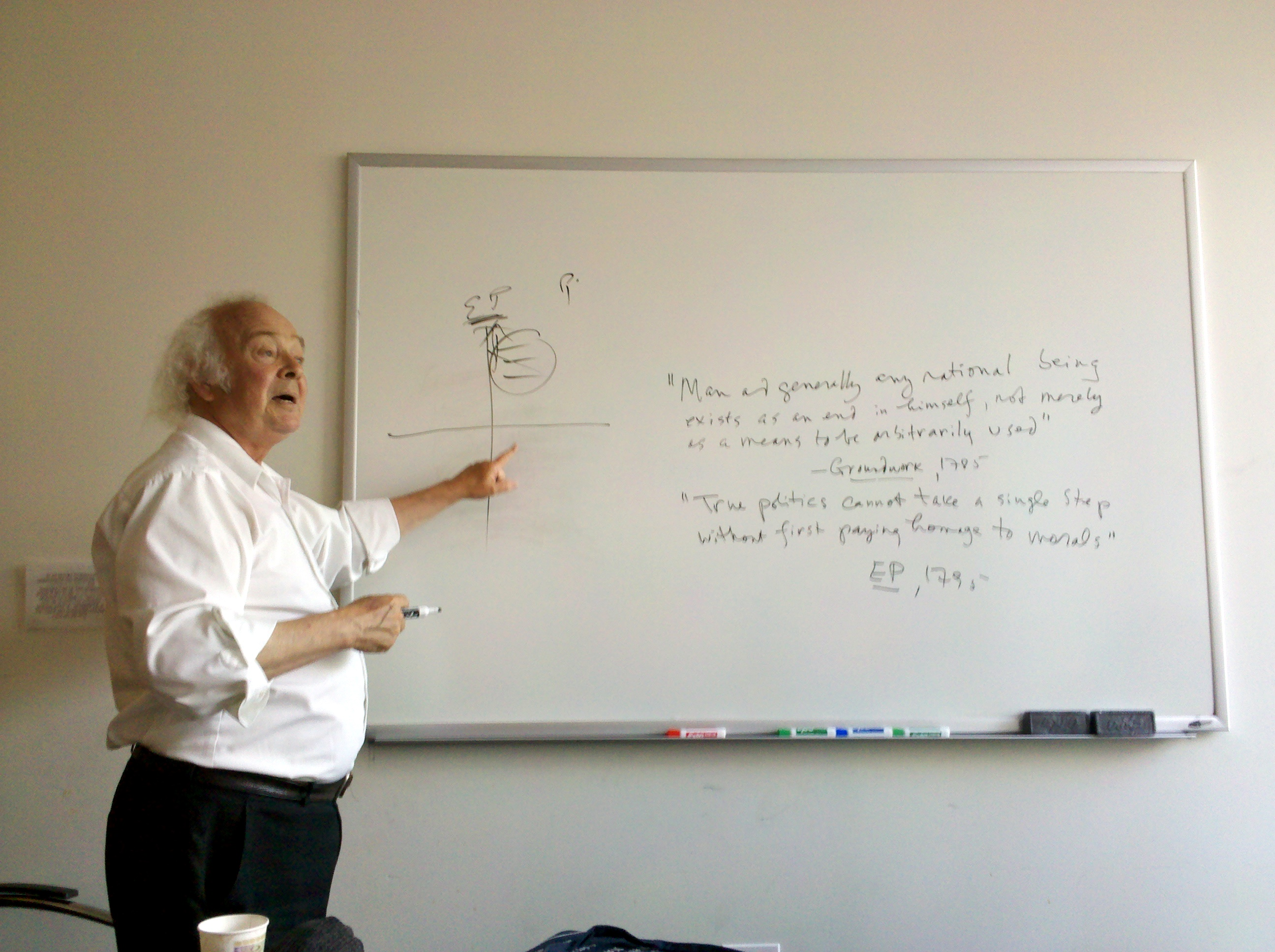 Professor Riley teaching Kant and Kantism at Harvard (Gov 2094)